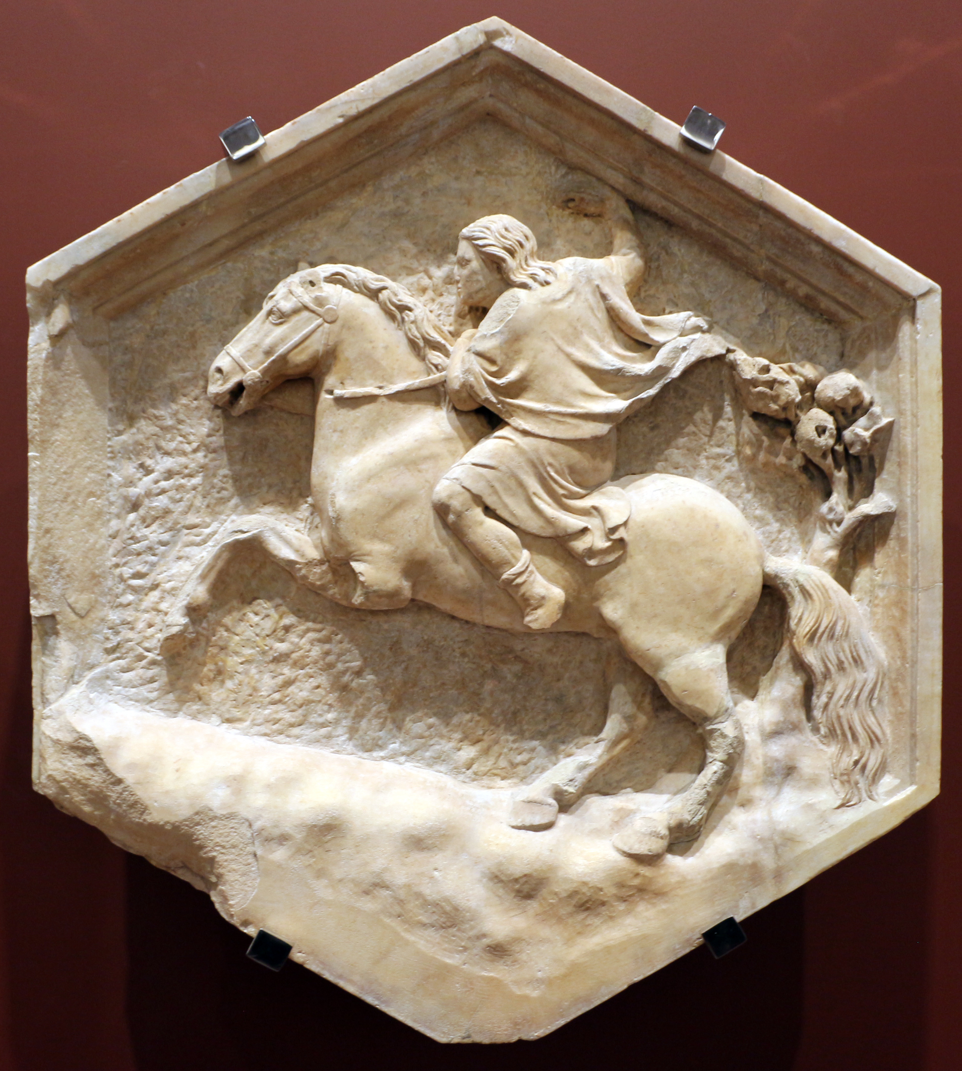 Reliefs of the Giotto's Belltower